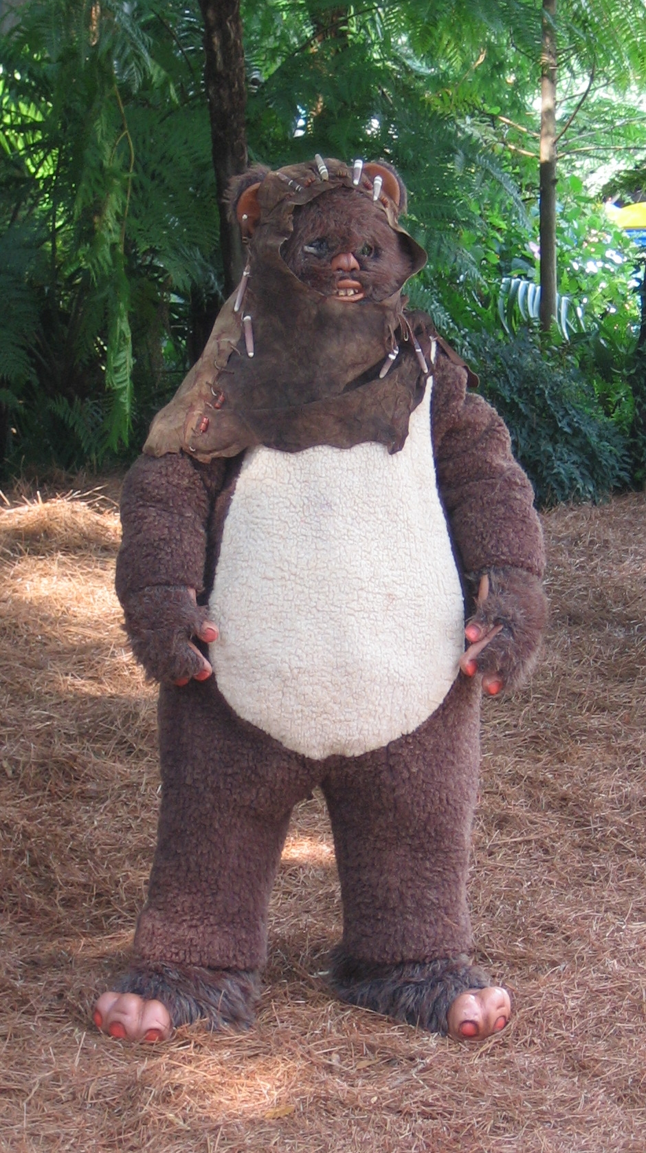 Person with an Ewok costume, photo taken in Florida